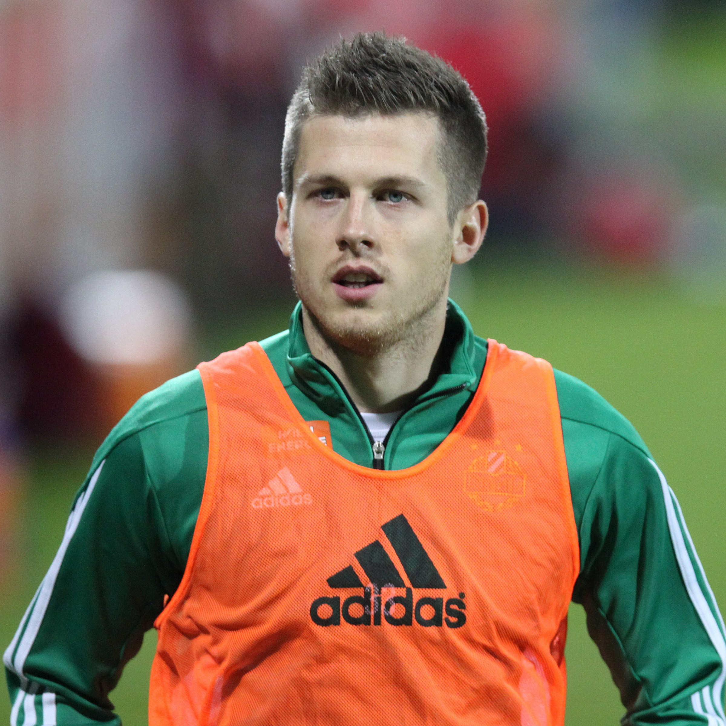 Match of the Austrian Football Bundesliga – SV Mattersburg (green shirts) vs. SK Rapid Wien (white shirts) 1-6 (0-5) at 2015-11-21 in Pappelstadion, Mattersburg – The photo shows Deni Alar (SK Rapid Wien).